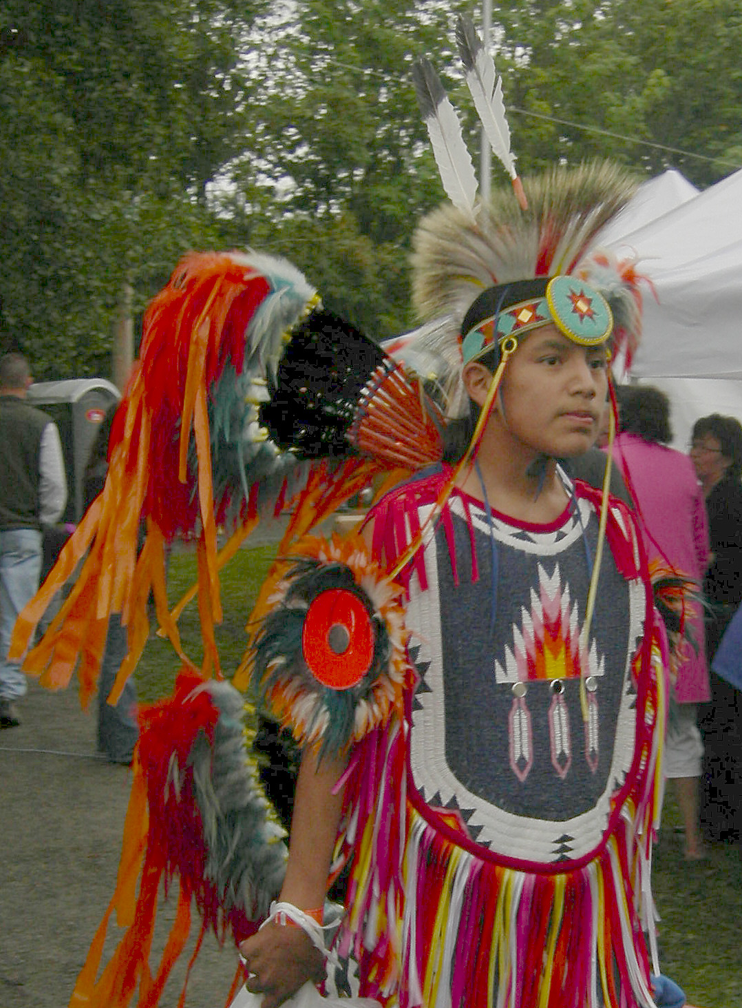 Young man in regalia, Seafair Indian Days Pow Wow, Daybreak Star Cultural Center, Seattle, Washington. The event is part of Seafair (a series of annual summer events in Seattle) and under the aegis of the United Indians of All Tribes Foundation.